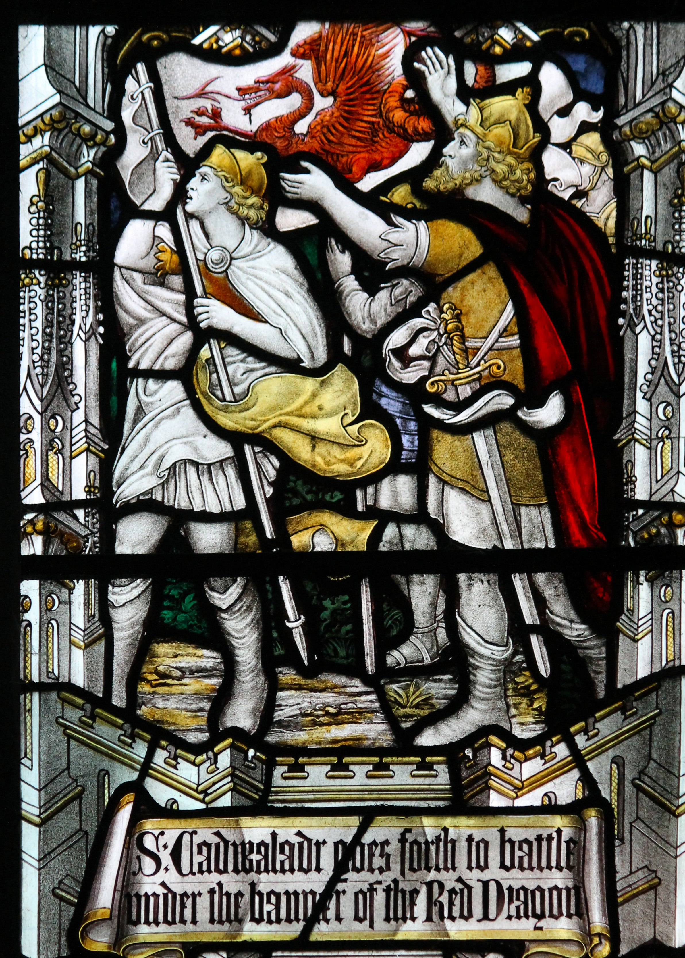 Photograph taken in Llandaf Cathedral, Cardiff, South Wales. Saint Cadwaladr goes forth to battle under the banner of the Welsh Dragon.